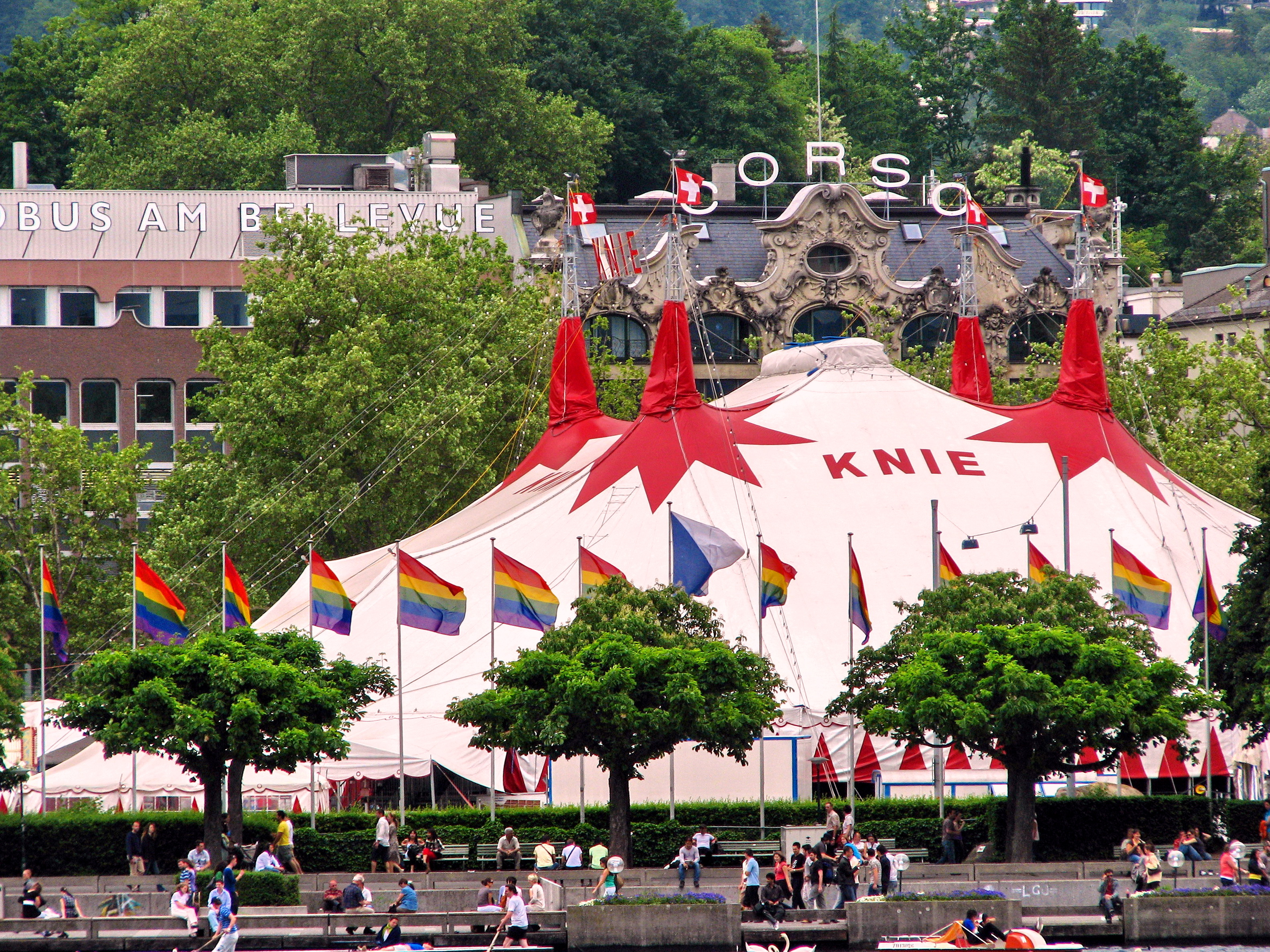 Circus Knie at Bellevue in Zürich, Utoquai in the foreground, Globus Shop and Cinema Corso buildings in the background.